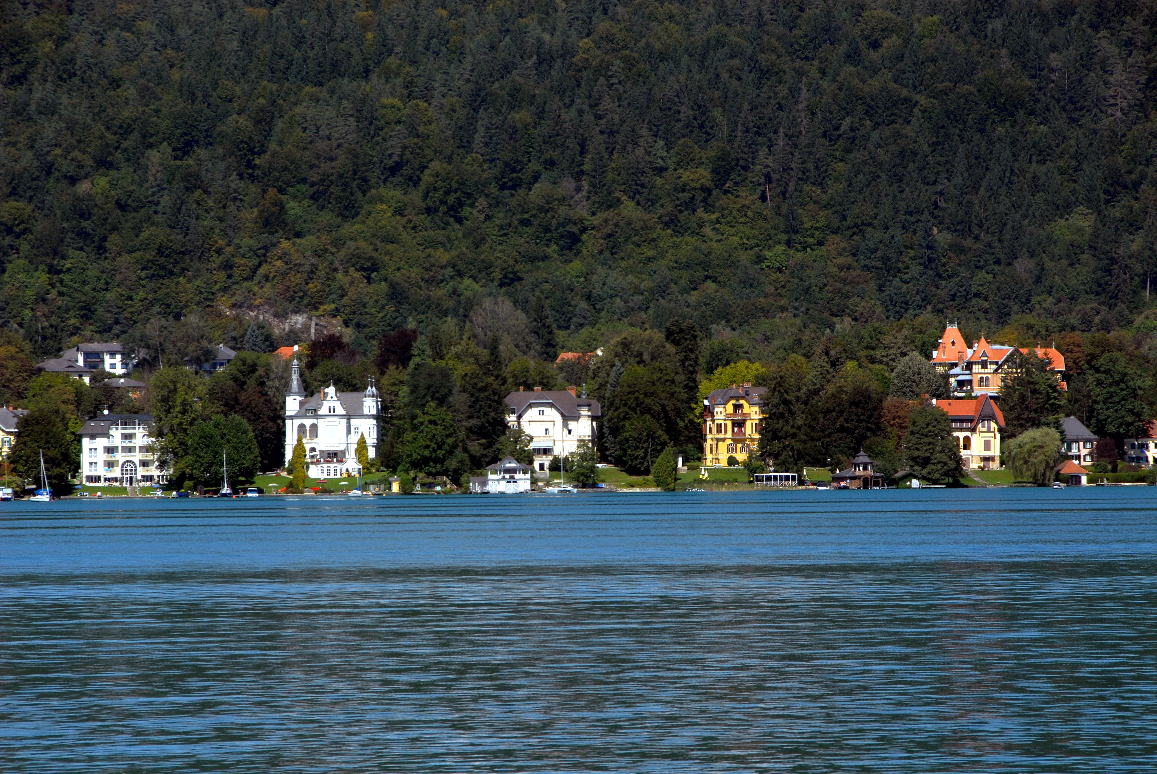 Villa ensemble (from left to right: Villa Christina, Villa Wörth , Seehotel Kainz, Villa Miralago , Villa Seefried and Villa Hoyos ) on the east bay of the Lake Woerth, municipality Poertschach on the Lake Woerth, district Klagenfurt Land, Carinthia / Austria / EU